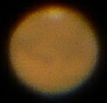 Mars snapshot, southern pole top